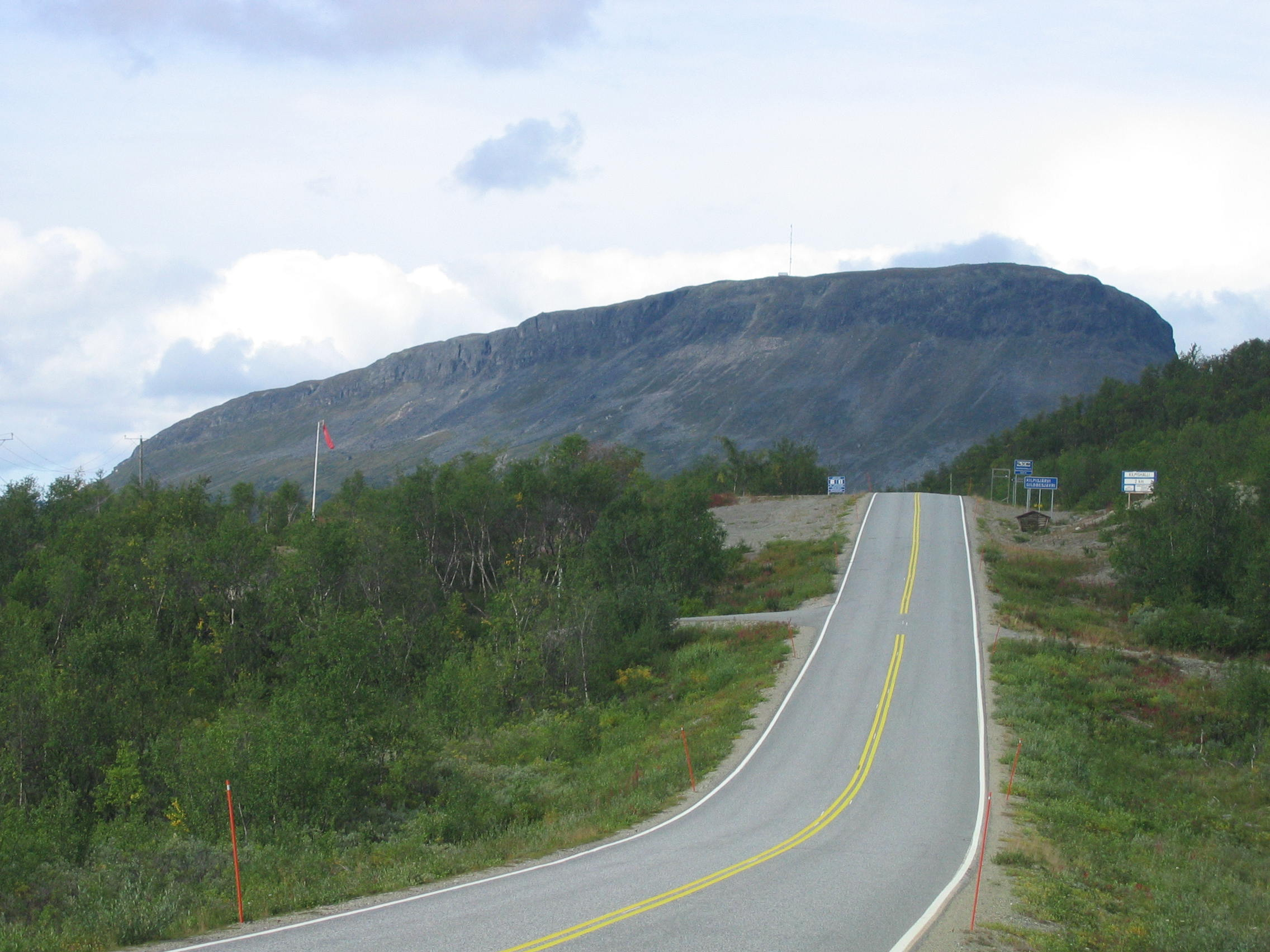 Main road 21 (European route E8) in Kilpisjärvi, Enontekiö, Finland.